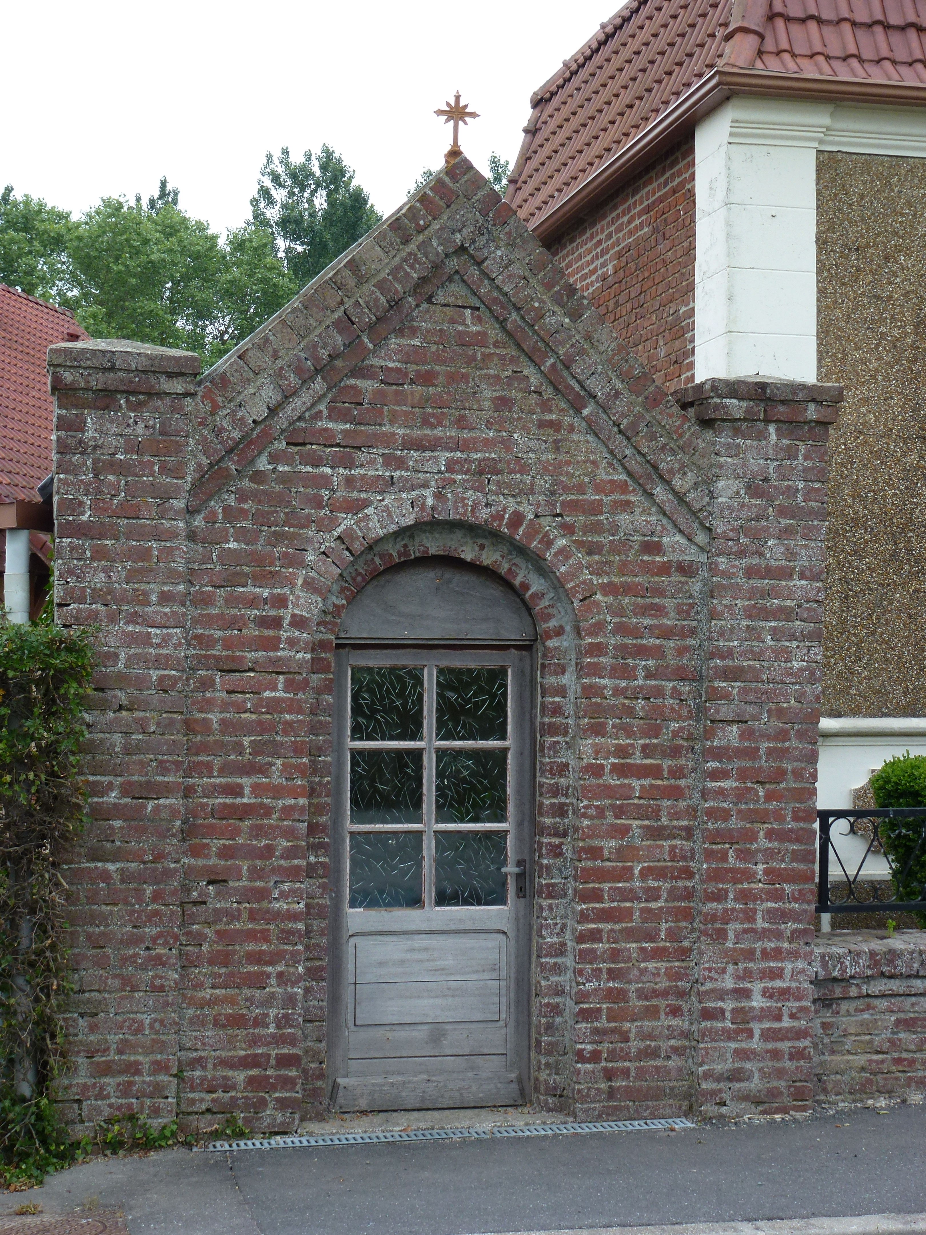 Fléchin (Pas-de-Calais) oratoire à Cuhem